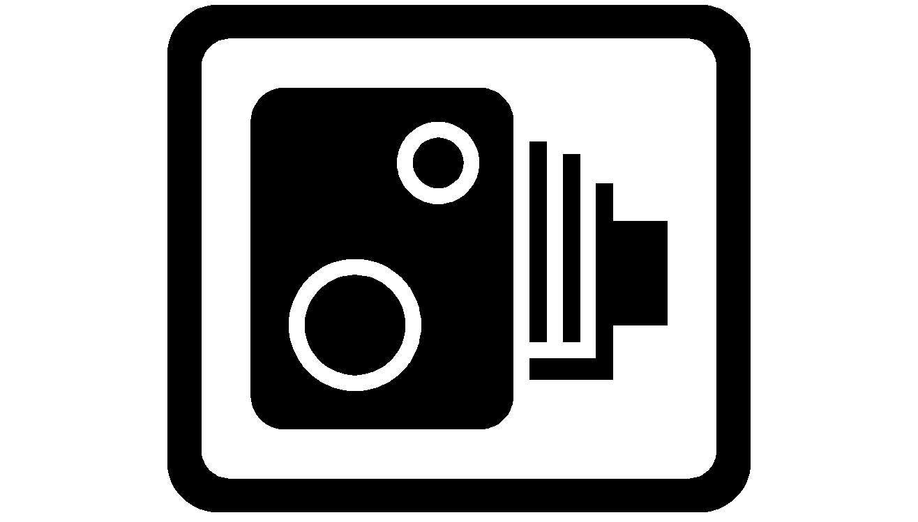 UK speed camera logo